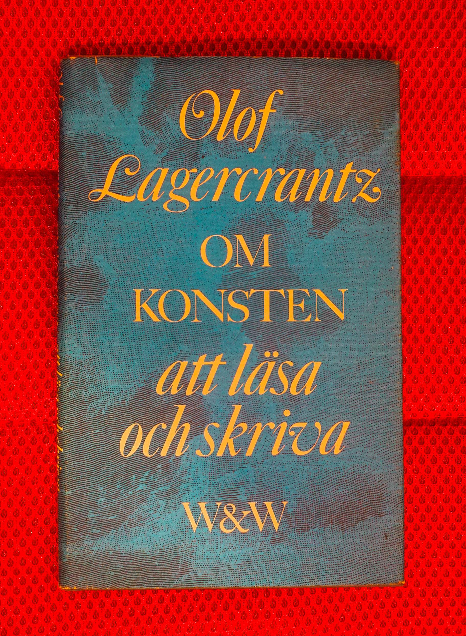 Olof Lagercrantz´s book About the art of reading and writing.